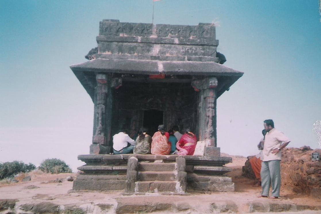 Mandapam on top of Kudachadri Hills. It is believed that Goddess appeared before Sri Adi Sankara here.